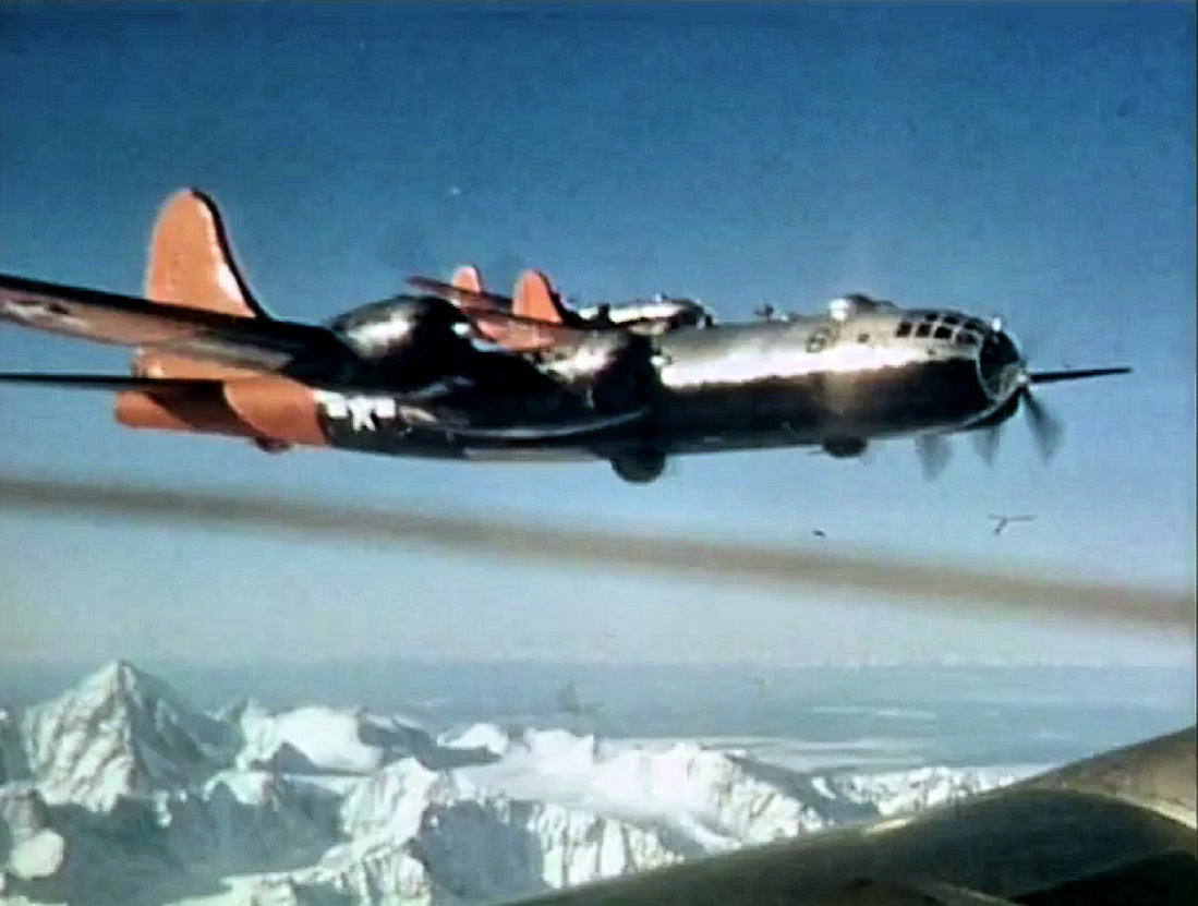 Please see filename